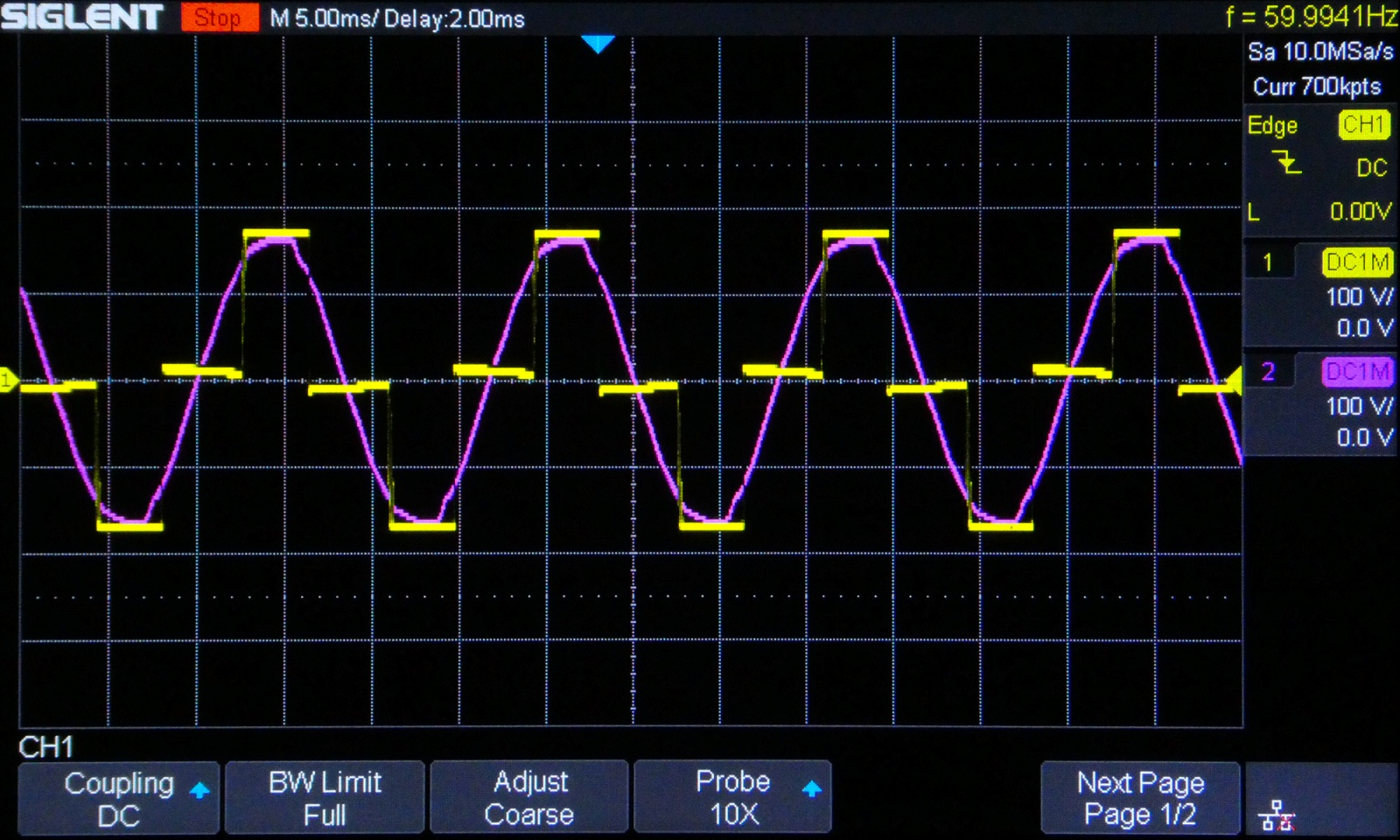 This image shows the non-sinusoidal nature of the AC power provided by some inexpensive consumer grade uninterruptible power supplies (in this case APC model "Back-UPS 550"). The UPS output is shown in yellow compared with a standard 120 VAC 60 Hz single phase waveform. This are actual waveforms measured by a dual trace digital oscilloscope.